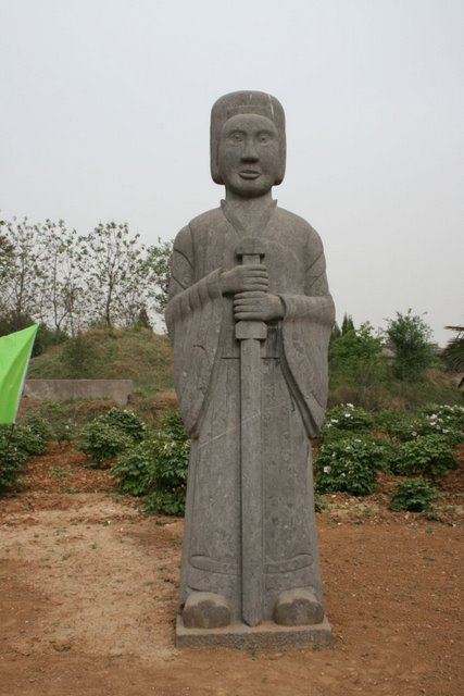 A stone-carved tomb guardian outside the tomb of Emperor Xuanwu of Northern Wei, Luoyang, China.